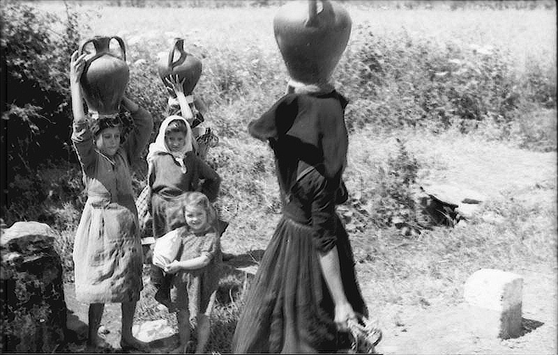 Information added by Wikimedia users.*